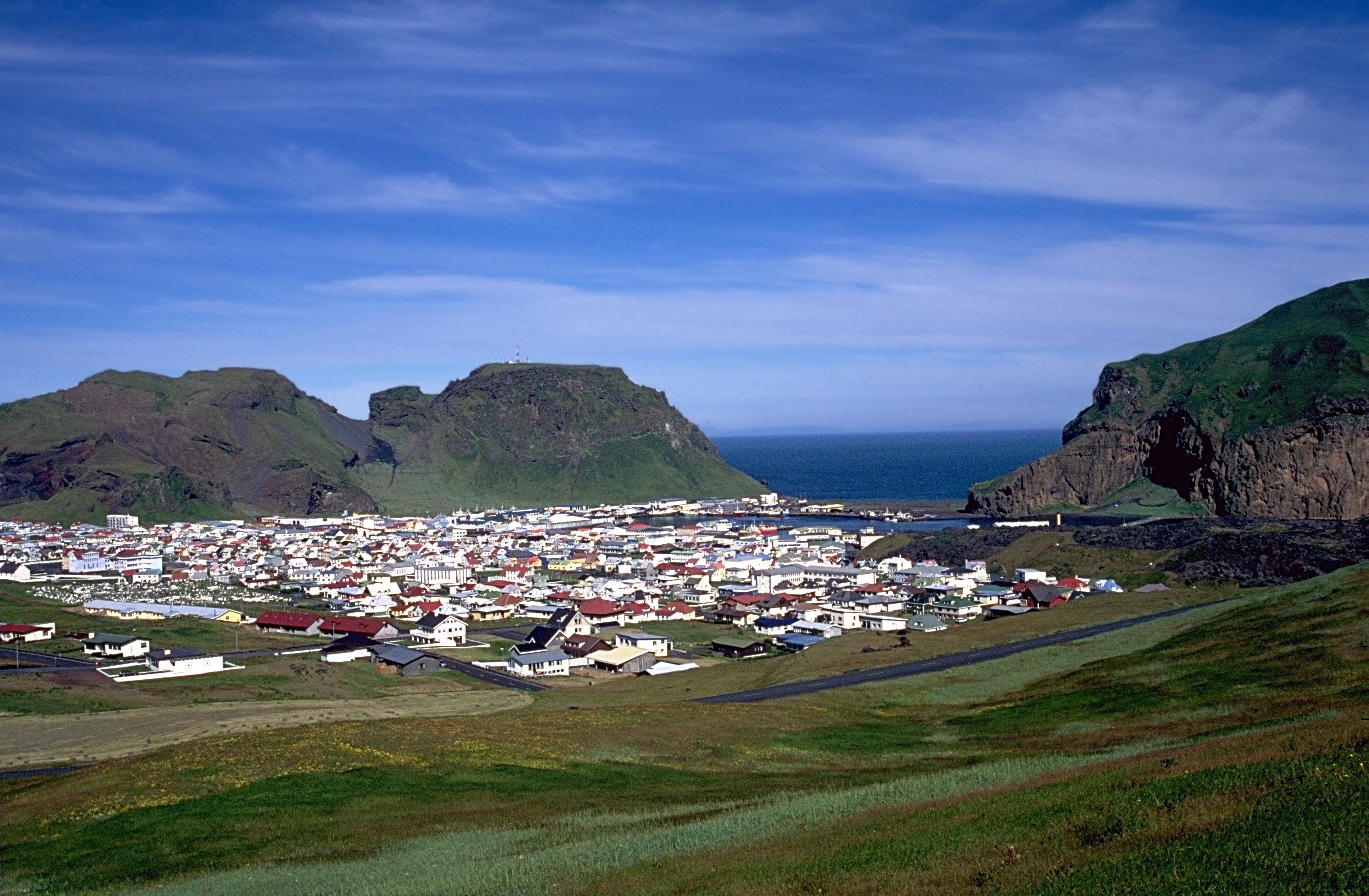 Heimaey on Vestmannaeyjar, Iceland Photo was taken using the following technique: Film: Fuji Velvia Lens: 4/35-70 Filter: Body: Minolta Dynax 7 Support: Manfrotto 190B Image with Information in English Bild mit Informationen auf Deutsch